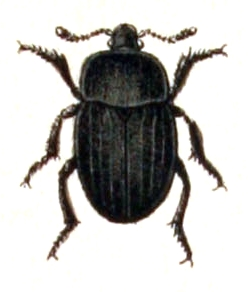 Silpha obscura, from Calwer's Käferbuch, Table 10, Picture 5. Taxonomy was updated to 2008, using mostly the sites Fauna Europaea and BioLib. Please contact Sarefo if the determination is wrong!